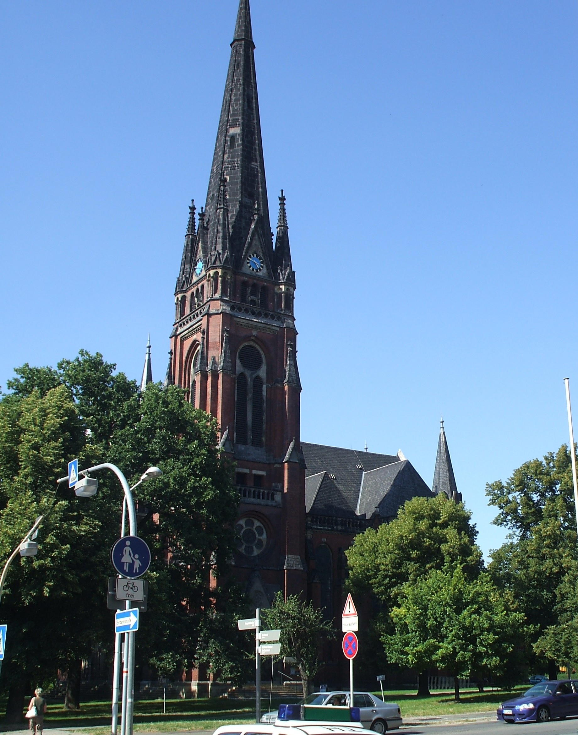 Johanniskirche, Gera, Germany